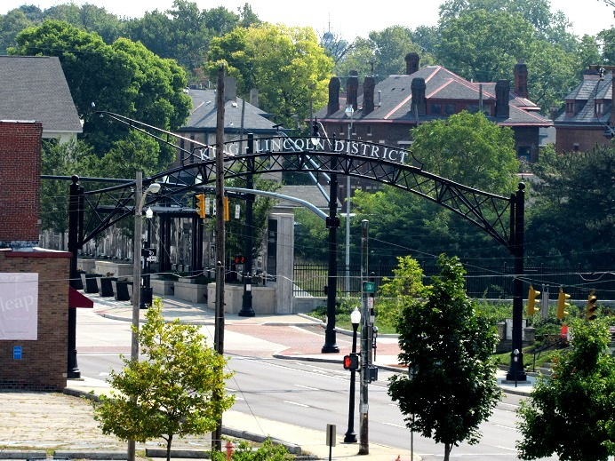 Arch